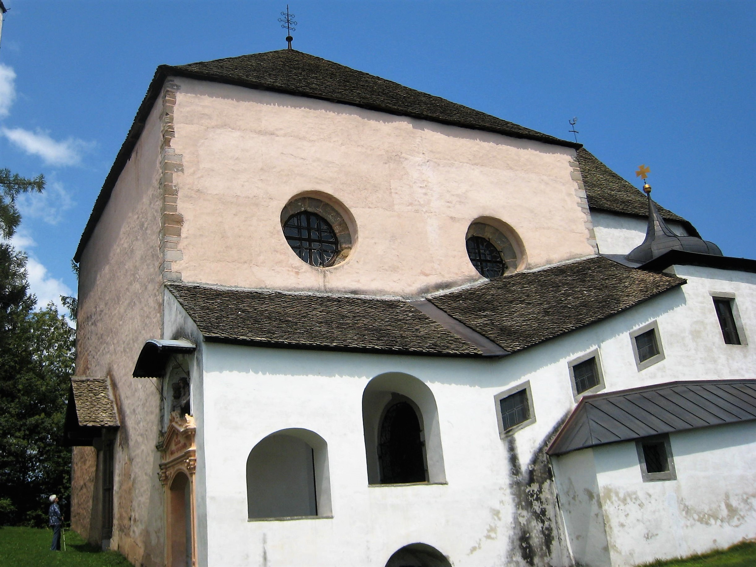 St. Pancras Parish Church, Slovenj Gradec: The nave of the church from south, with Holy staircase in the front